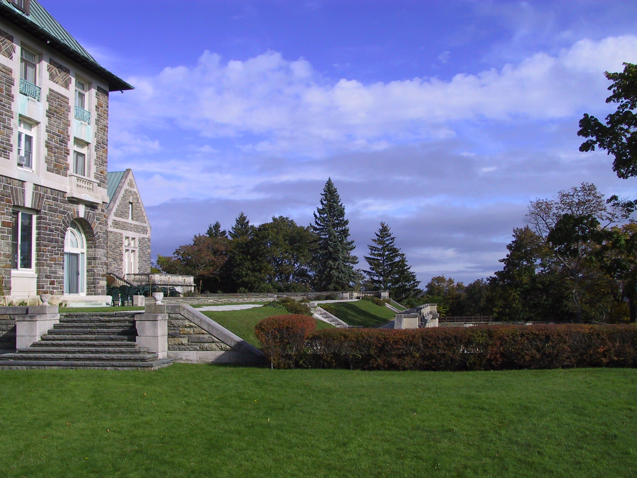 Arden House, former home to railroad magnate Edward H. Harriman. In 1950, his son Averell Harriman deeded the property to Columbia University which uses it as a center for executive management programs. It became a National Historic Landmark in 1966.